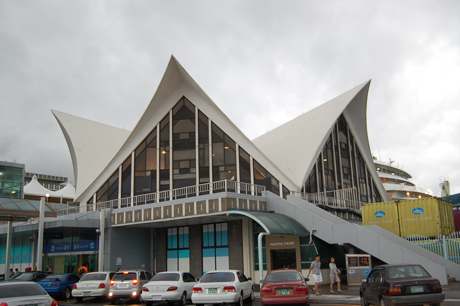 Korea Busan/Pusan International Ferry Terminal